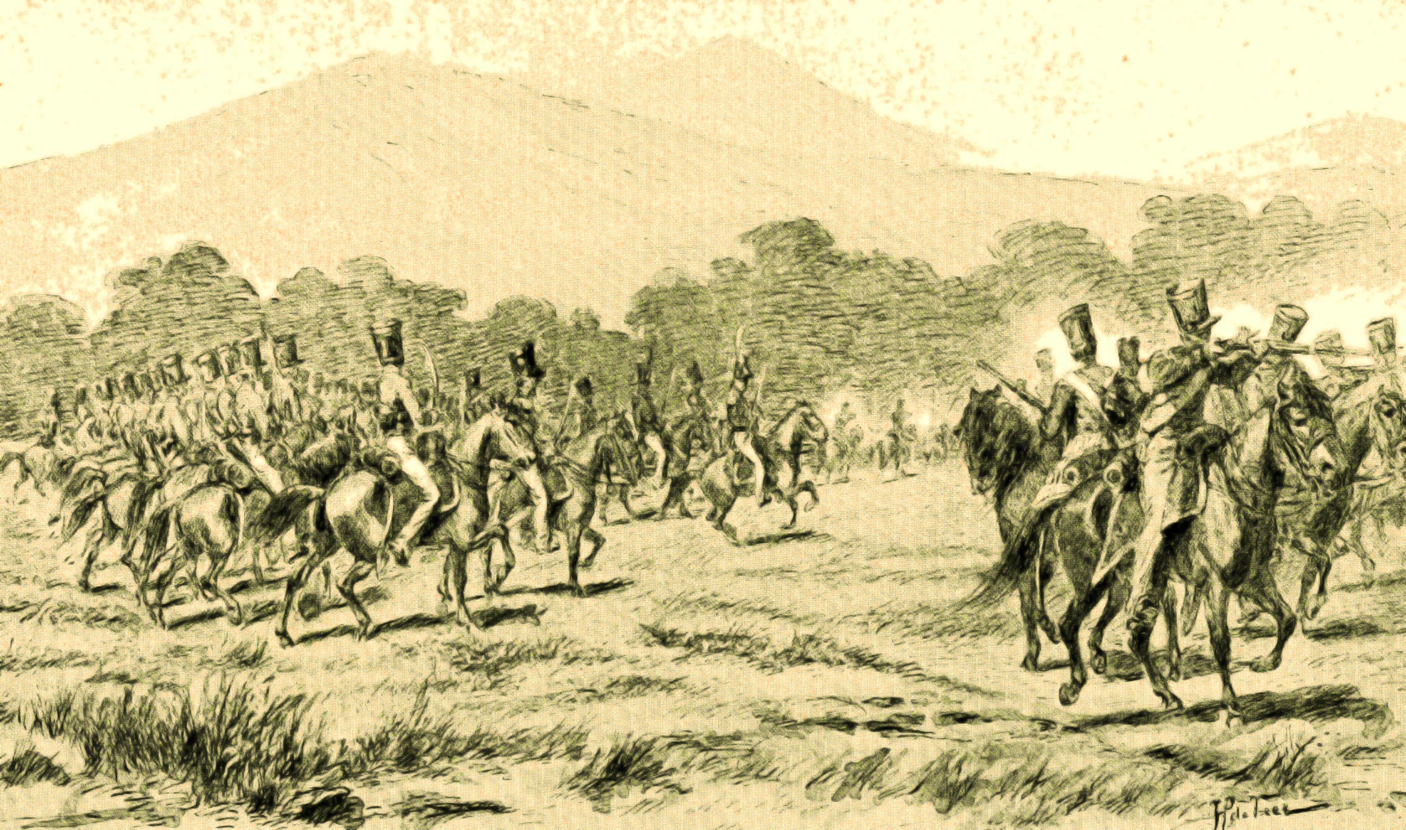 Luitenant generaal Van Geen bij Dixo